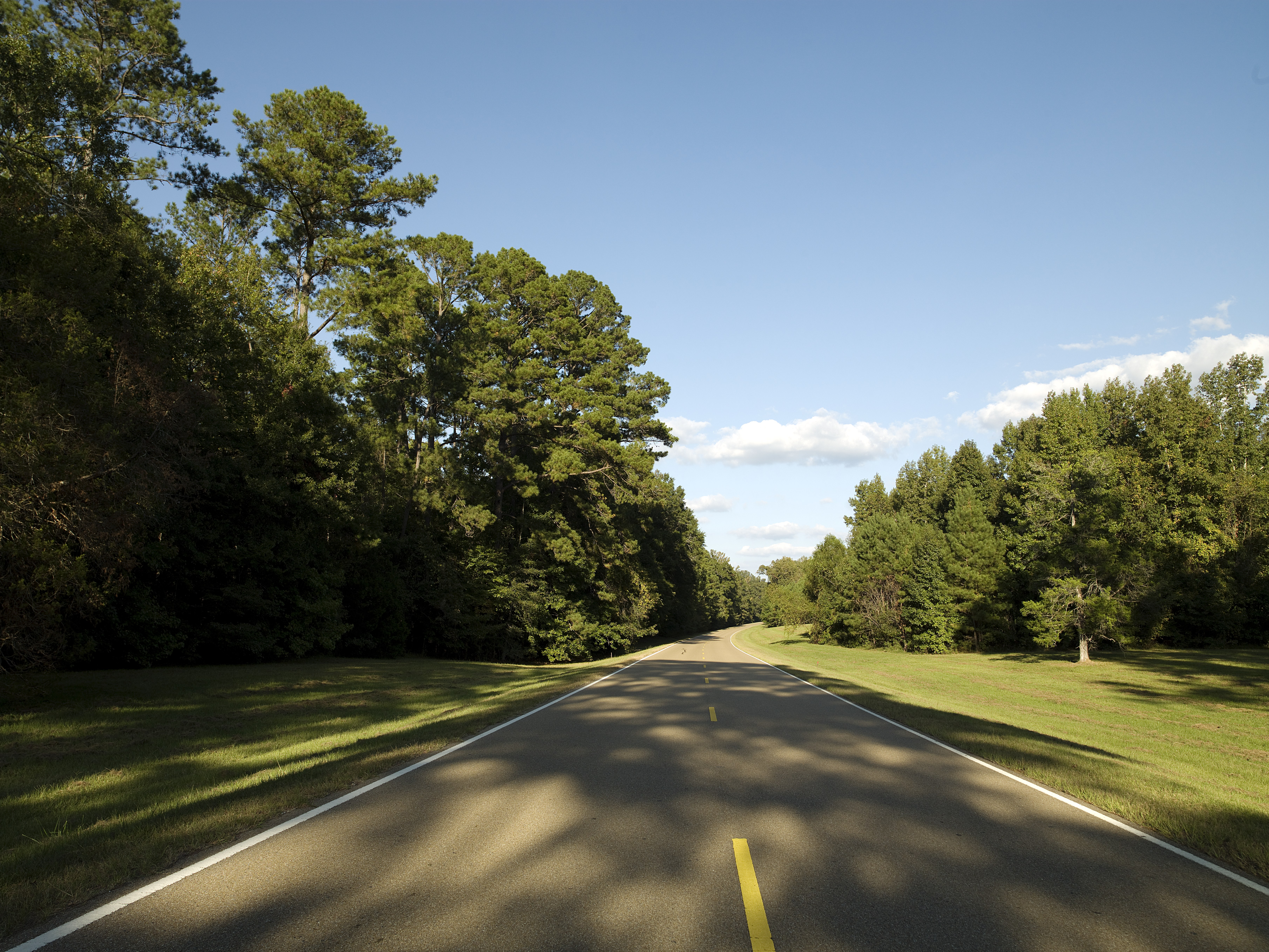 Natchez Trace Parkway, Mississippi MEDIUM: 1 photograph : digital, TIFF file, color. NOTES: The 444-mile Natchez Trace Parkway commemorates an ancient trail used by animals and people that connected southern portions of the Mississippi River, through Alabama, to salt licks in today's central Tennessee.